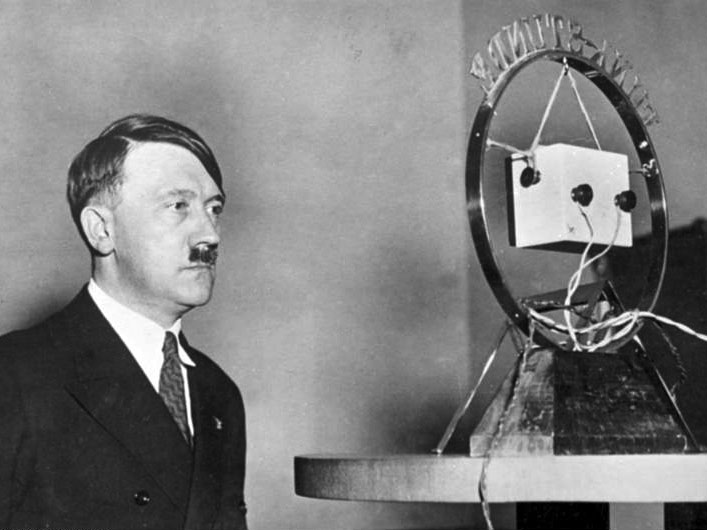 ADN-ZB: Fascist Germany 1933-1945. On January 30, 1933, Reich President Paul von Hindenburg appoints Adolf Hitler as Reichskanzler. On February 1, the new Reichskanzler Hitler (in picture) addresses the German nation in a call of the Reichsregierung, broadcast over all German transmitters. [Berlin.- Adolf Hitler in front of radio microphone in a radio speech] Abgebildete Personen: Hitler, Adolf: Reichskanzler, Deutschland Information added by Wikimedia users.Rundfunkansprache 1. Februar 1933. Adolf Hitler, Hüftb (in Anzug; vor Mikrofon). Vgl: Bayerische Staatsbibliothek, Fotoarchiv Hoffmann, Bild-Nr. hoff-7568.